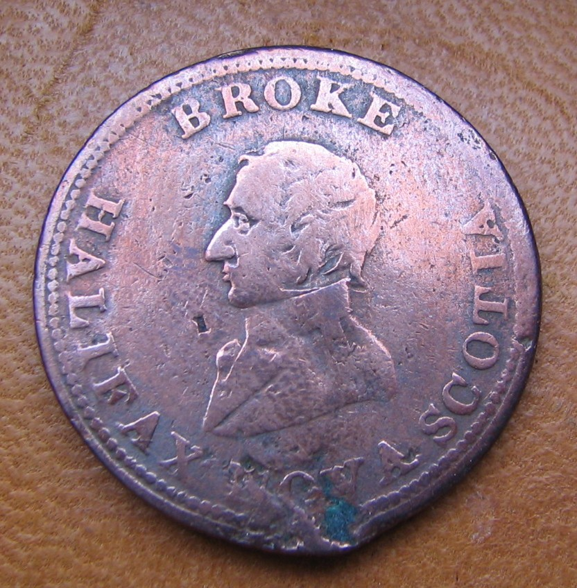 Broke Token Halifax Nova Scotia 1814. copper token issued in Halifax in 1814 with bust of Philip Broke